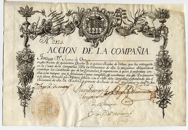 Stock certificate Compañía Guipuzcoana, Madrid, June 1, 1752